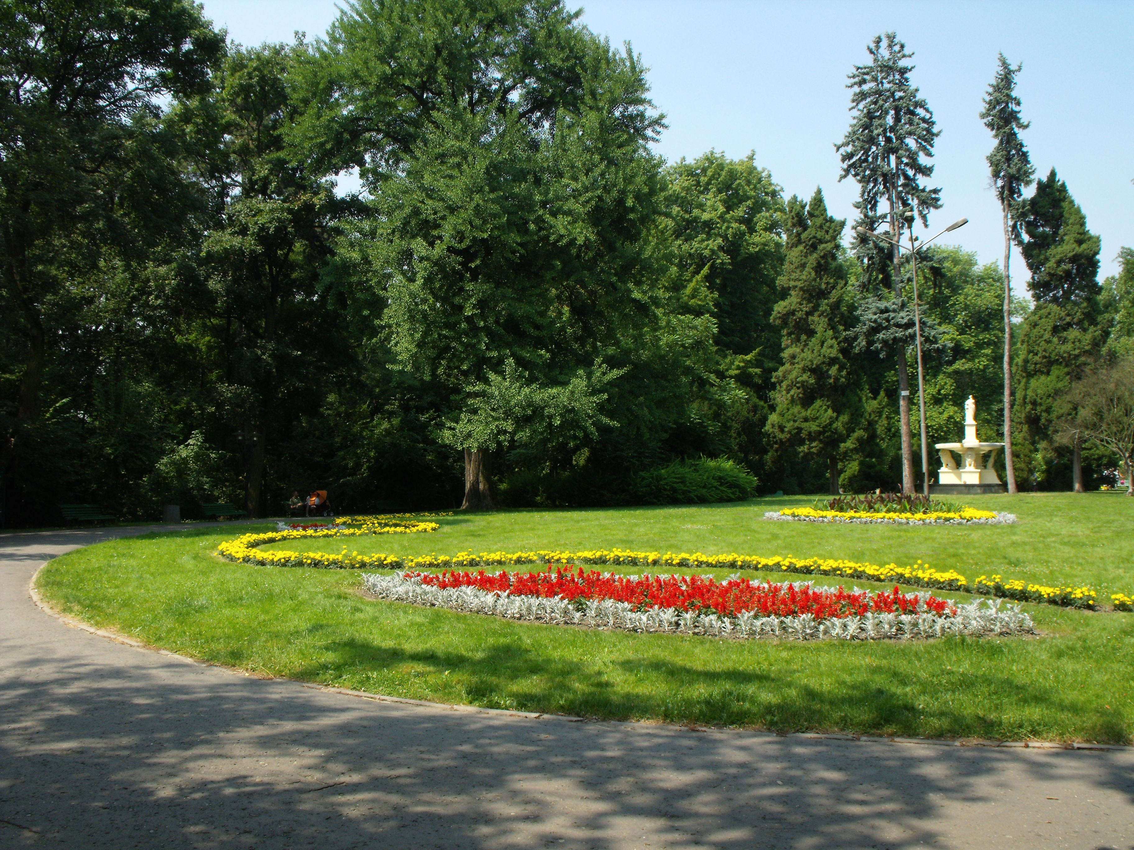 Strzelecki Park in Tarnów